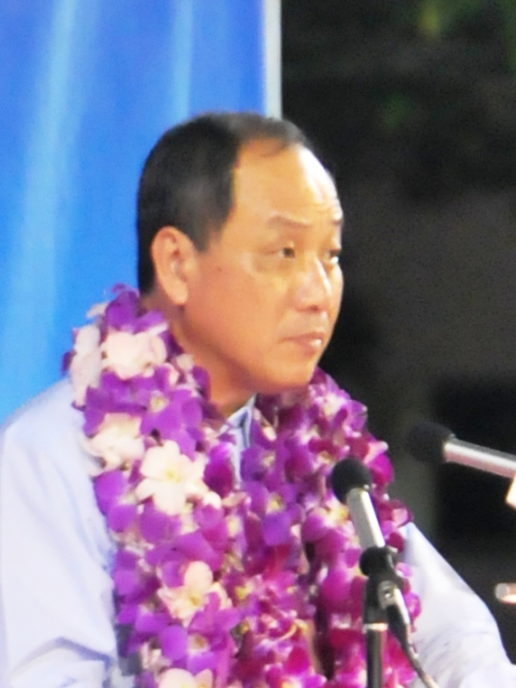 Low Thia Khiang during his rally speech at Serangoon Stadium, Singapore, as a candidate of the Workers' Party of Singapore during the Singaporean general election, 2011.